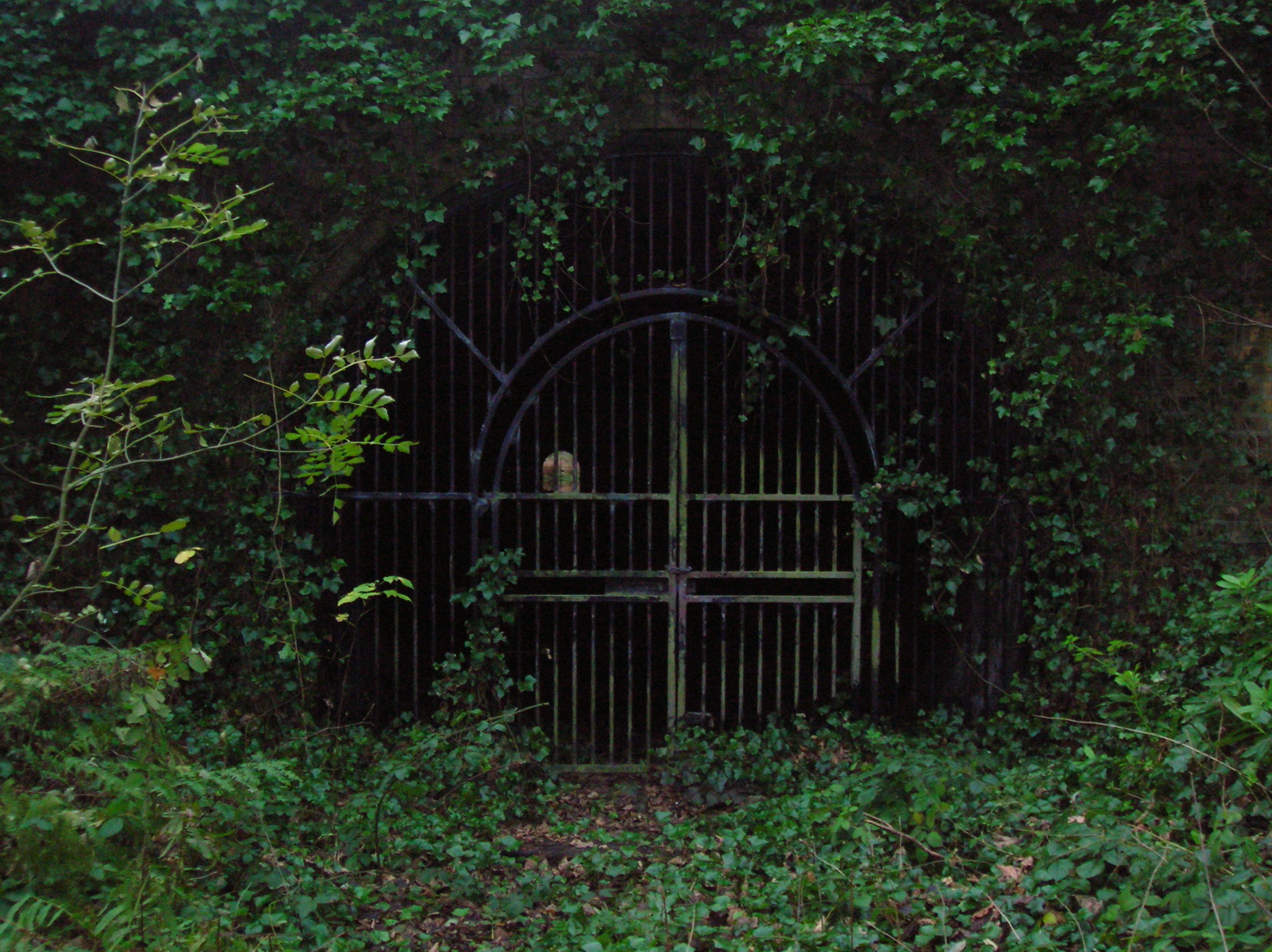 The entrance to the Eglinton railway tunnel from Ladyha colliery, Kilwinning, Ayrshire, Scotland.